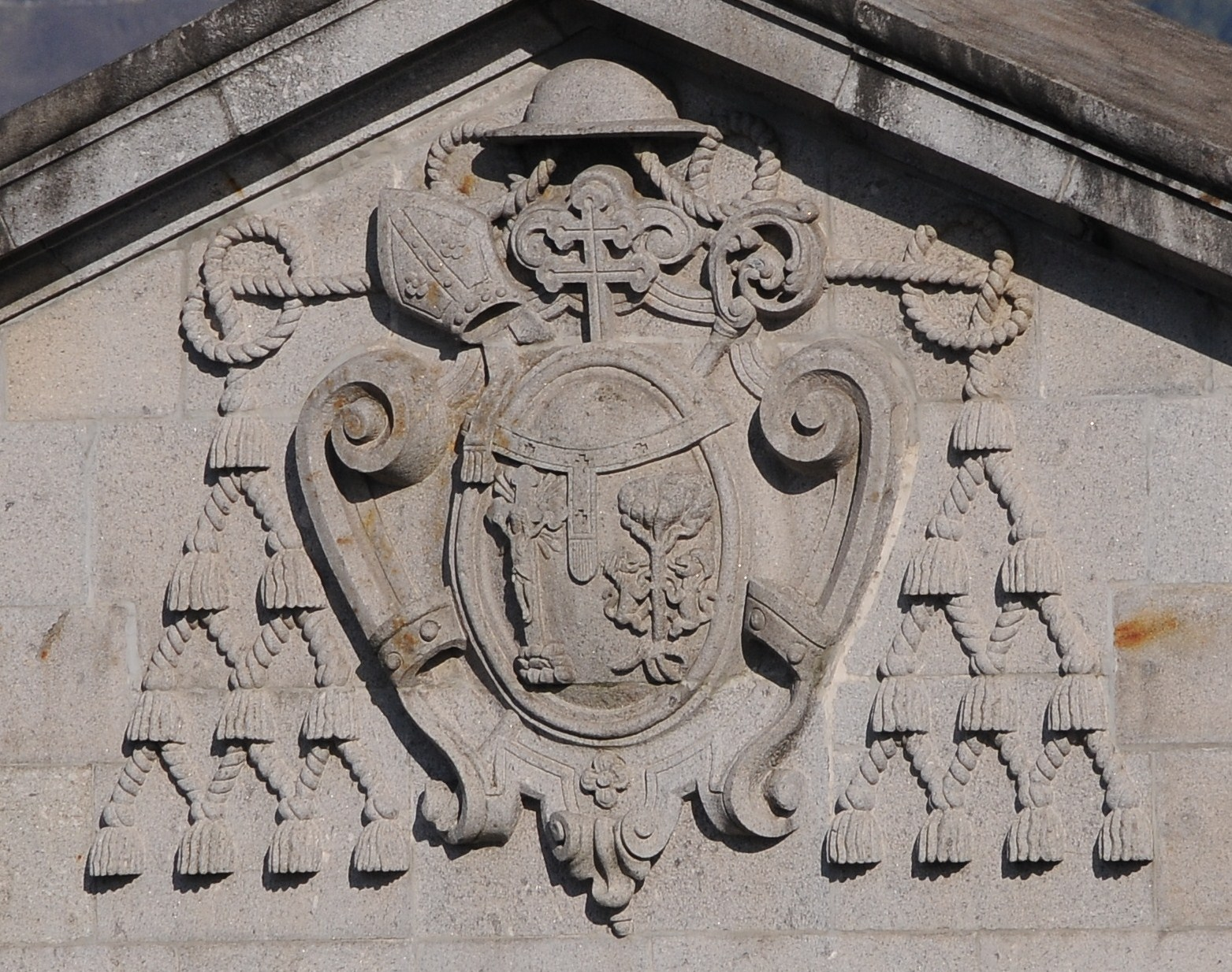 Coats of arms of Roman Catholic archbishops of Braga in Rua de Santa Margarida, Braga, Portugal.